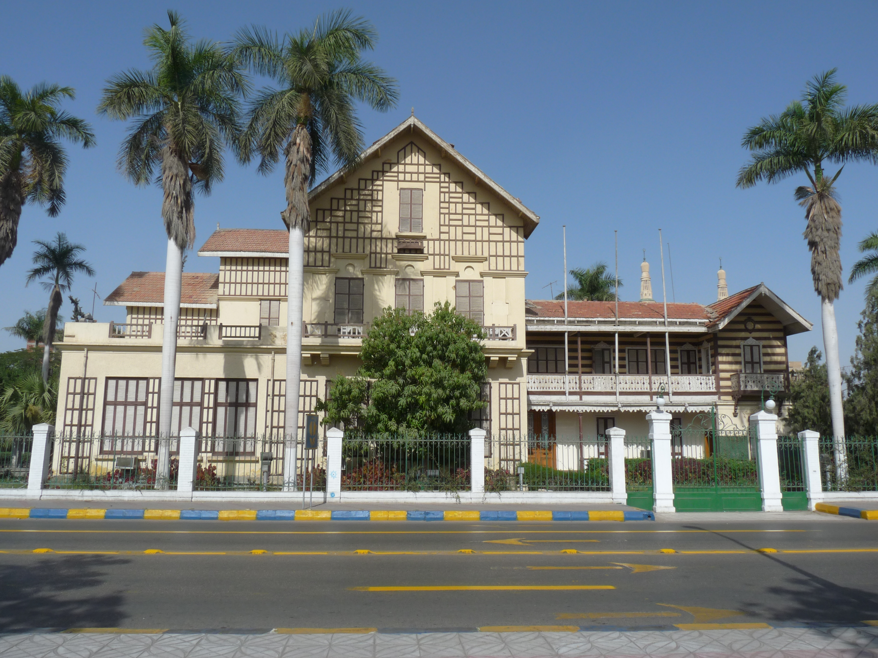 House of Ferdinand de Lesseps, promoter of the Suez Canal, in Ismailia, Egypt.